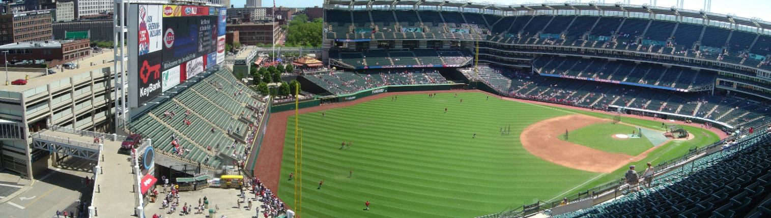 Stitched panorama of Jacobs Field in Cleveland, Ohio